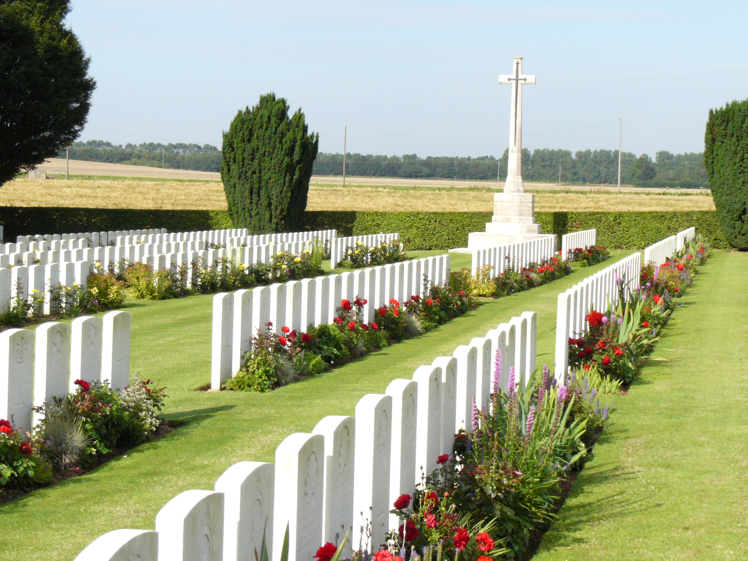 Image of the Cross of Sacrifice in the Commonwealth War Commission Anneux Cemetery, Cambrai, France.